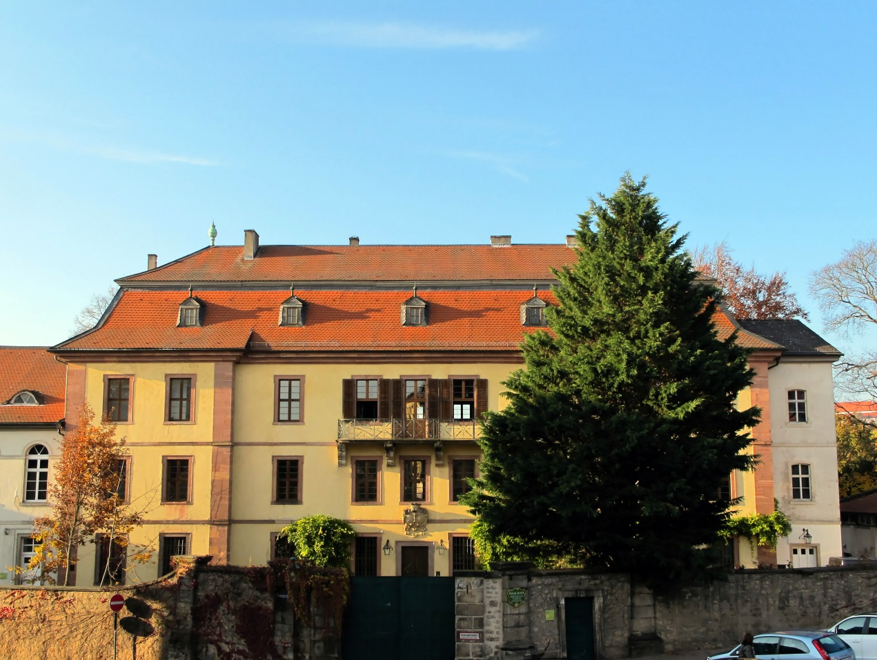 Fulda, Palace "Palais Buseck"